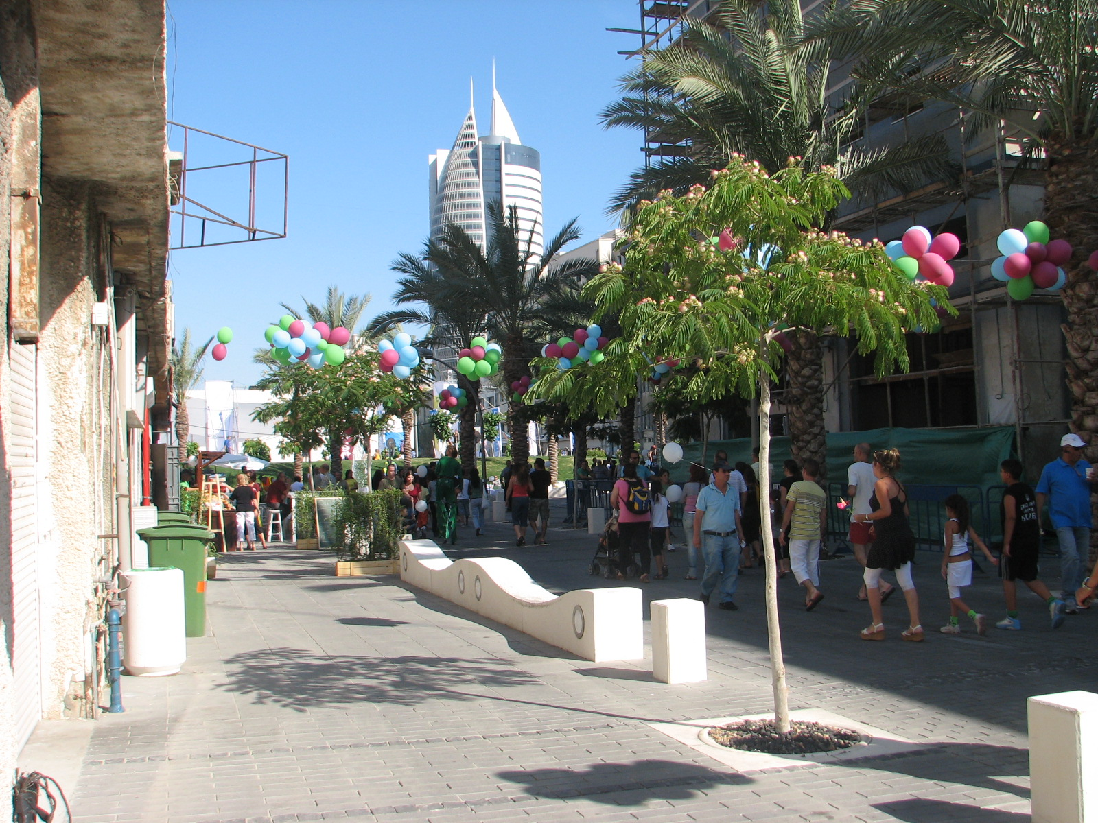 Summertime in Downtown Haifa, Israel.